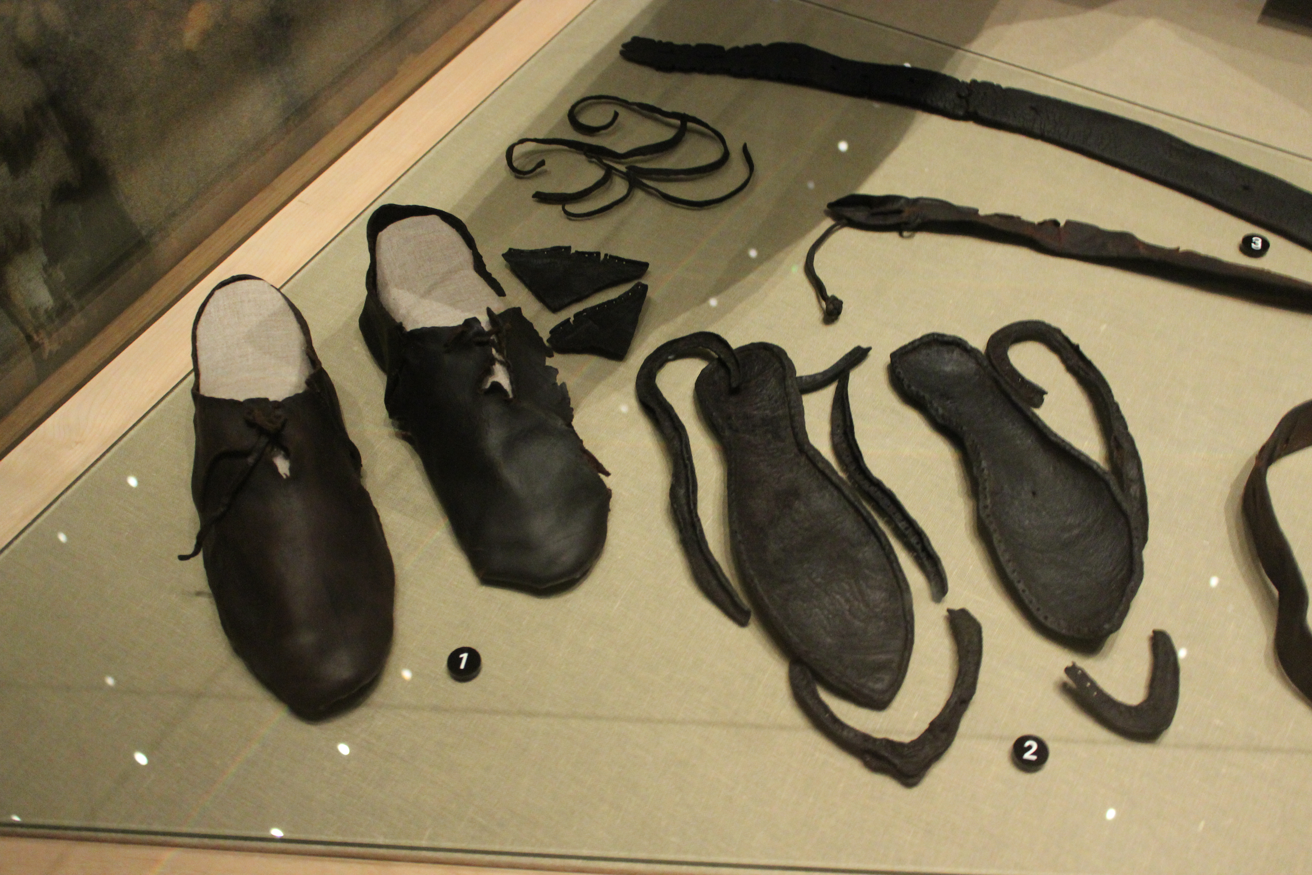 Sheos of Bockstensmannen